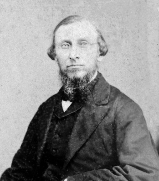 Photograph (c. 1860s-1870s) of Samuel Merrill Woodbridge (1819-1905). Woodbridge was a clergyman and professor at Rutgers College and New Brunswick Theological Seminary (1857-1901). There is no information available about the creator of this photograph, this photograph was created in the 1860s or 1870s during the middle of the subject, Samuel Merrill Woodbridge's life.